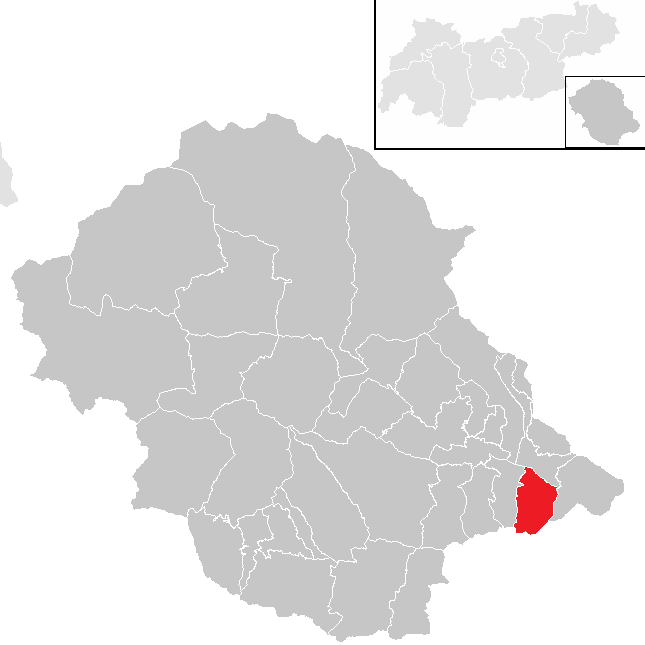 District Lienz